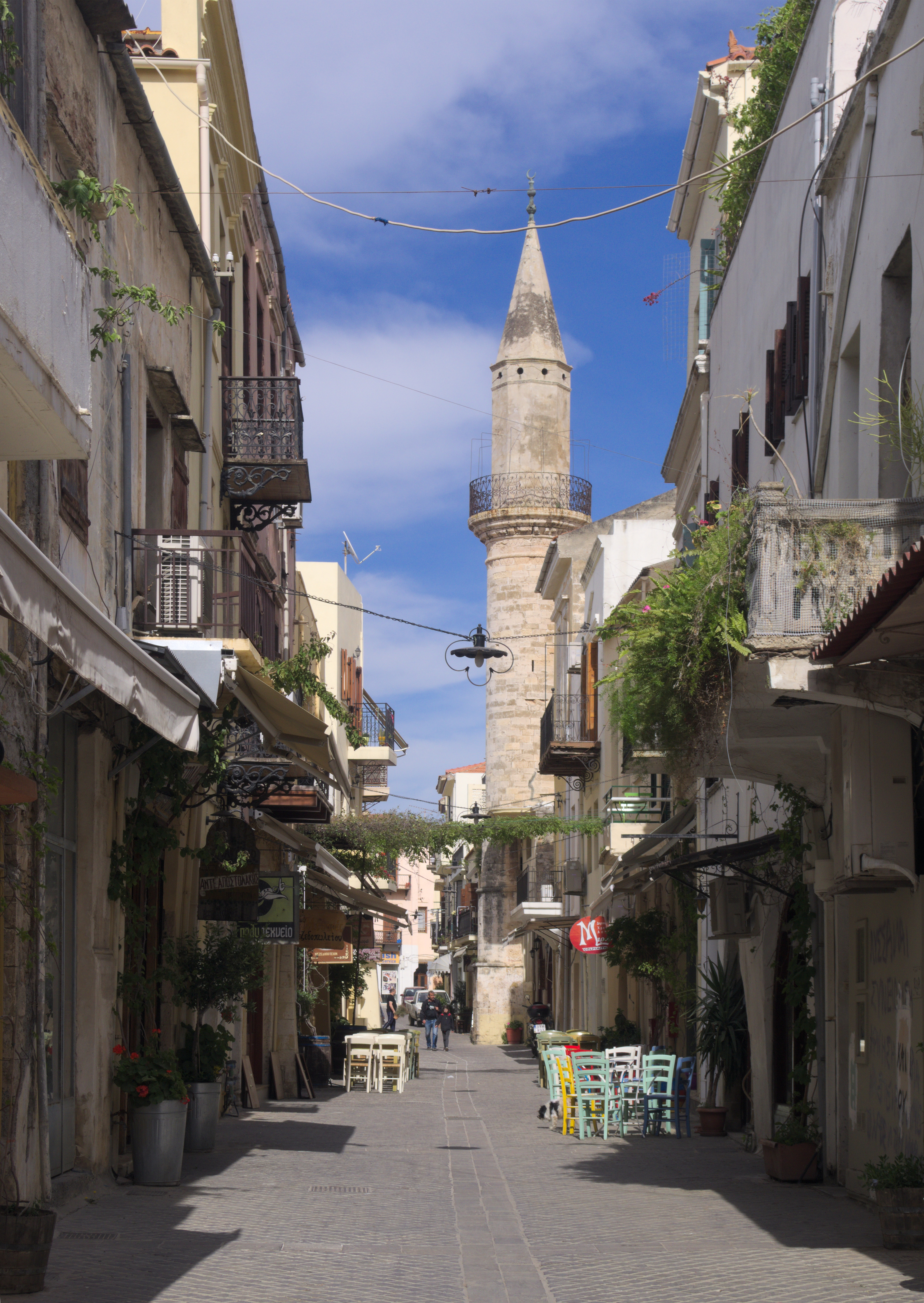 Hatzimichalis Dalianis street, Chania old town, with the Ahmet Agha minaret.